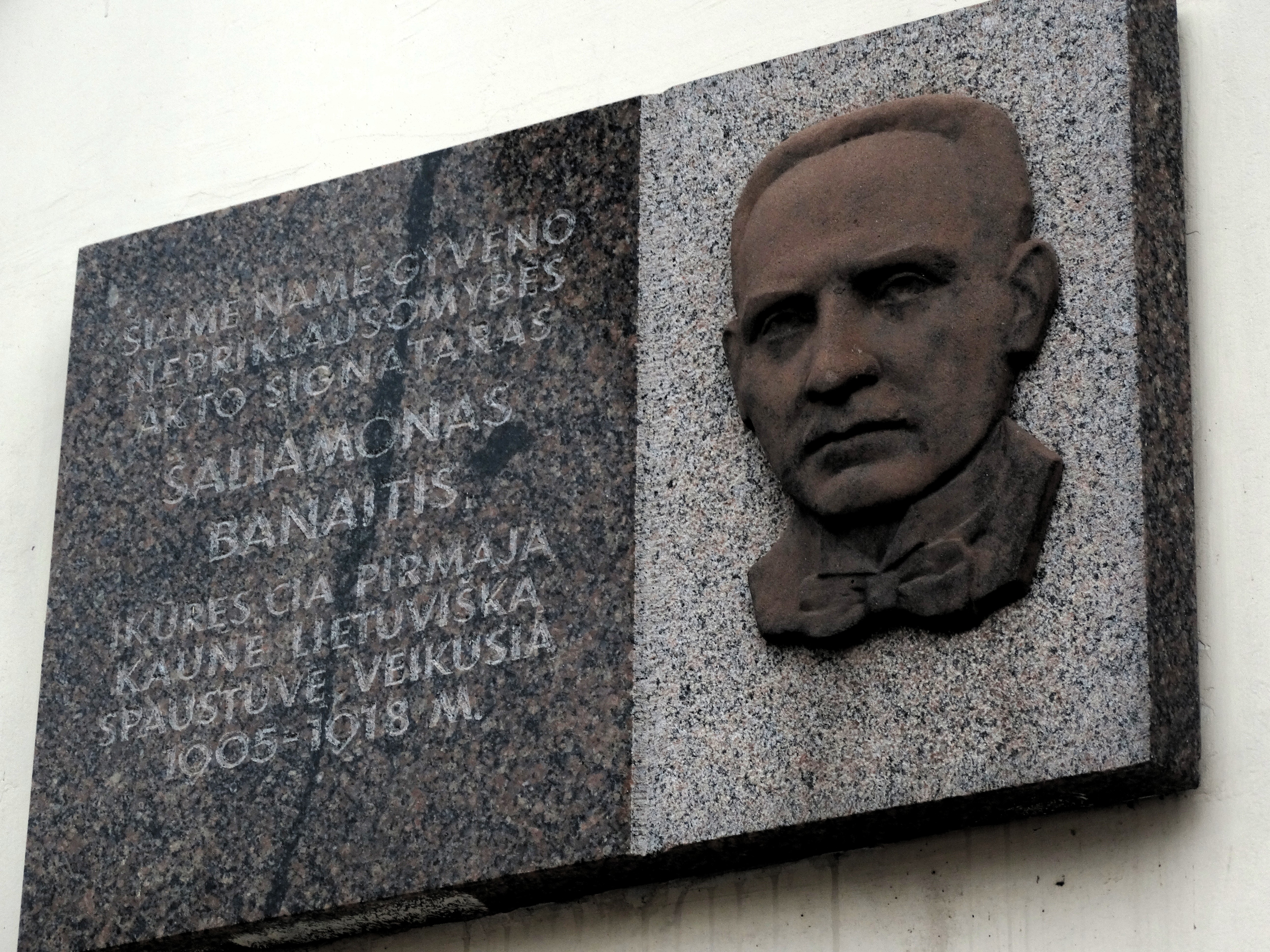 Memorial plaque to Saliamonas Banaitis, Kaunas, Lithuania